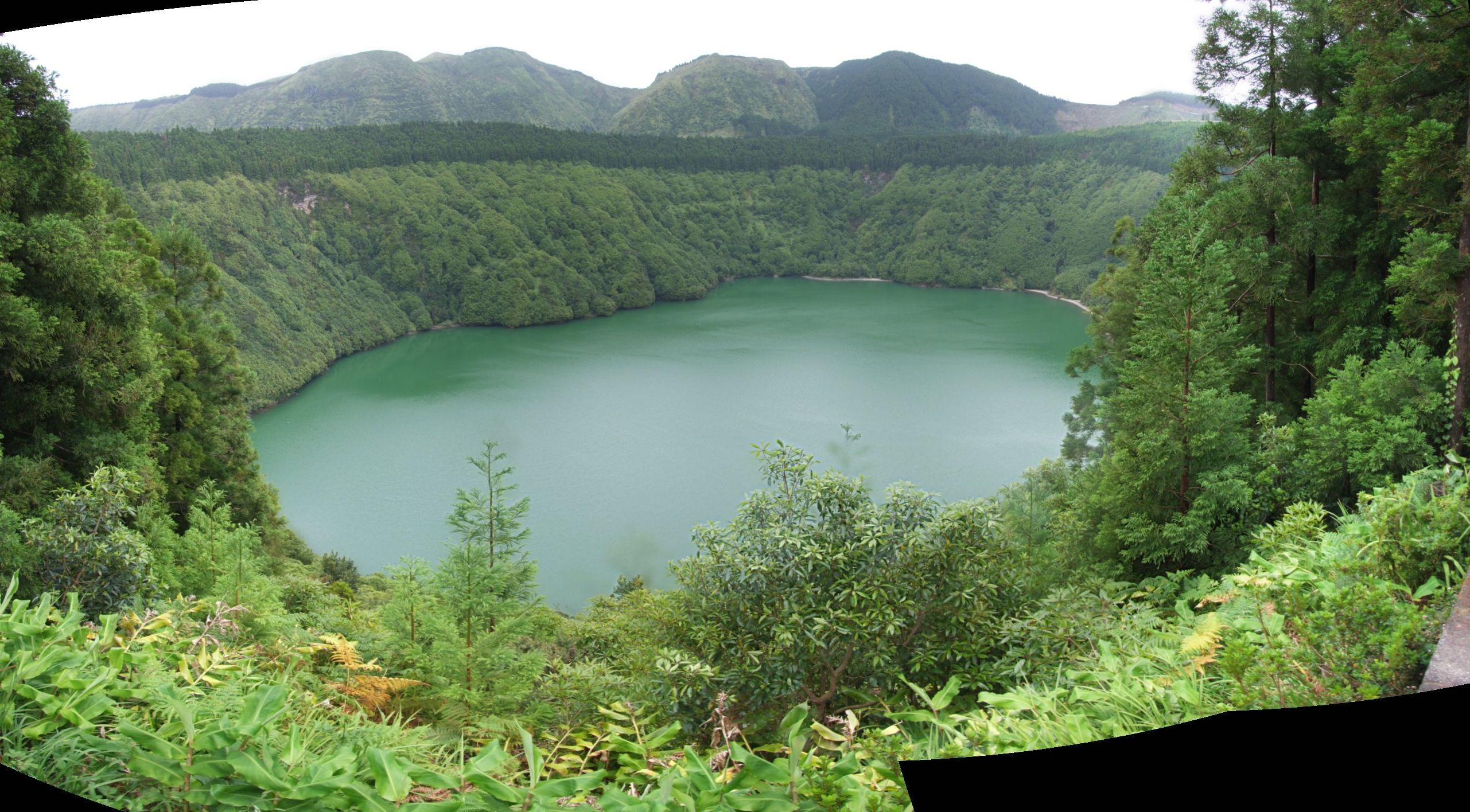 São Miguel, Sao-Miguel, Azores, Portugal